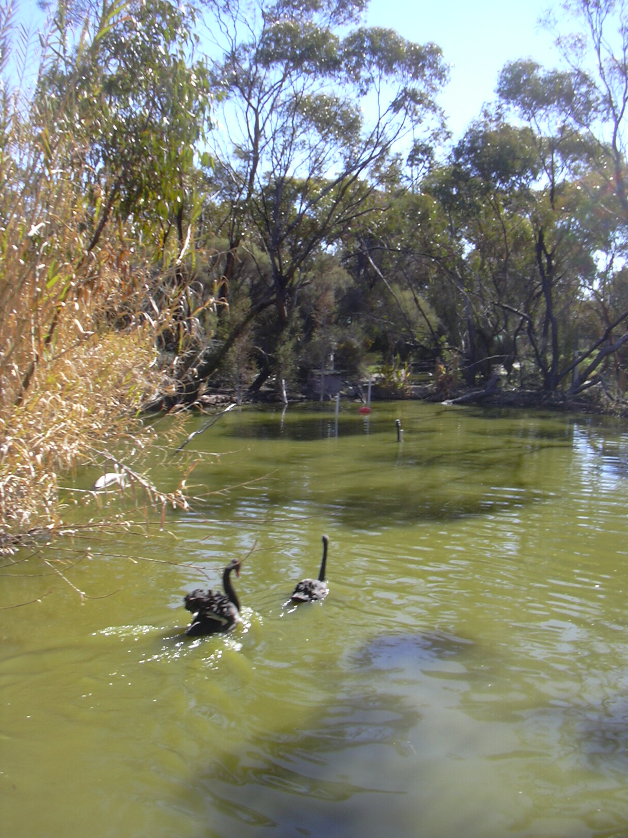 Lake Magic with black swan (near Wave Rock)(Western Australia)